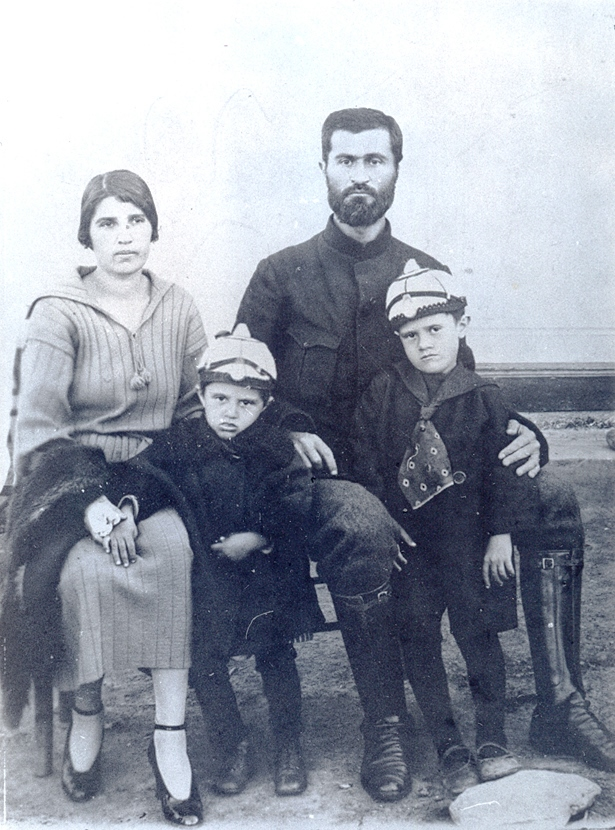 Portrait of Todor Alexandrov with his family.